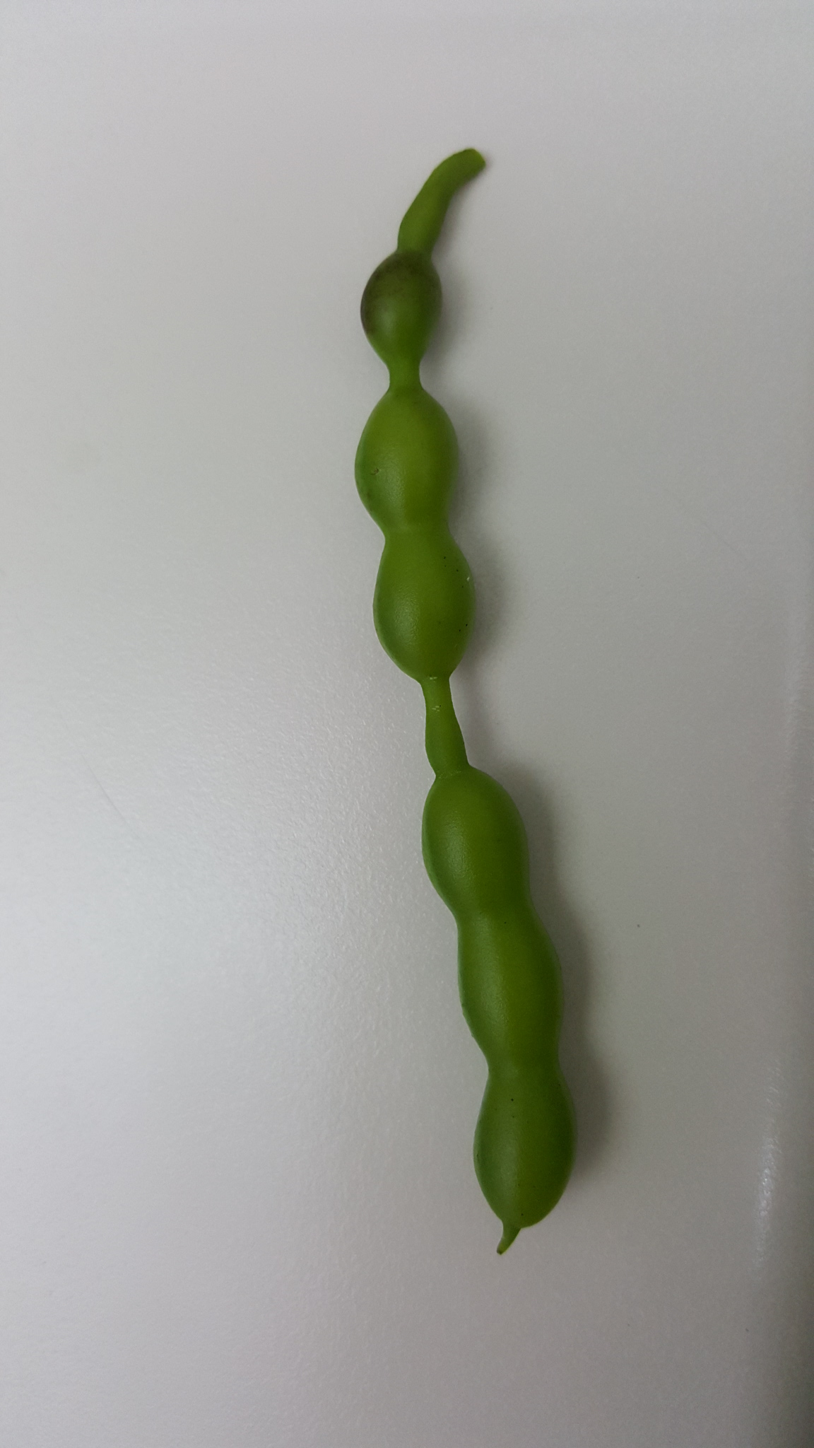 Beans of Chinese Scholar Tree